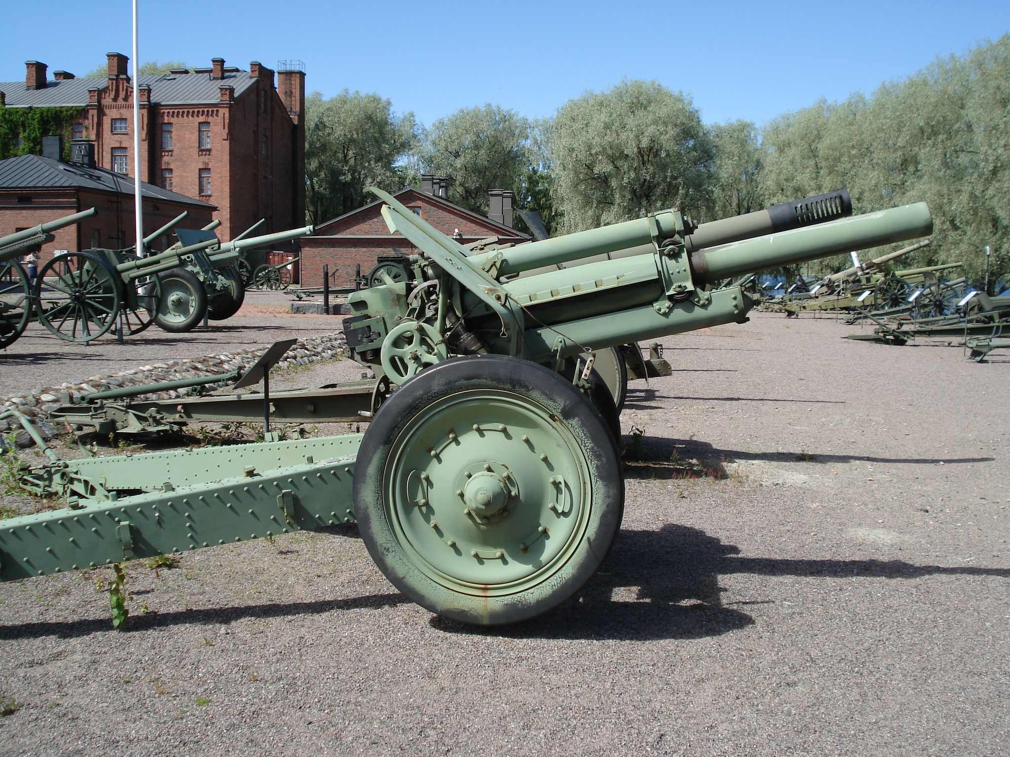 Soviet M-30 122 mm howitzer model 1938, displayed in Hämeenlinna Artillery Museum. Photo taken on June 18, 2006. Source: Photo by me, User:Balcer.